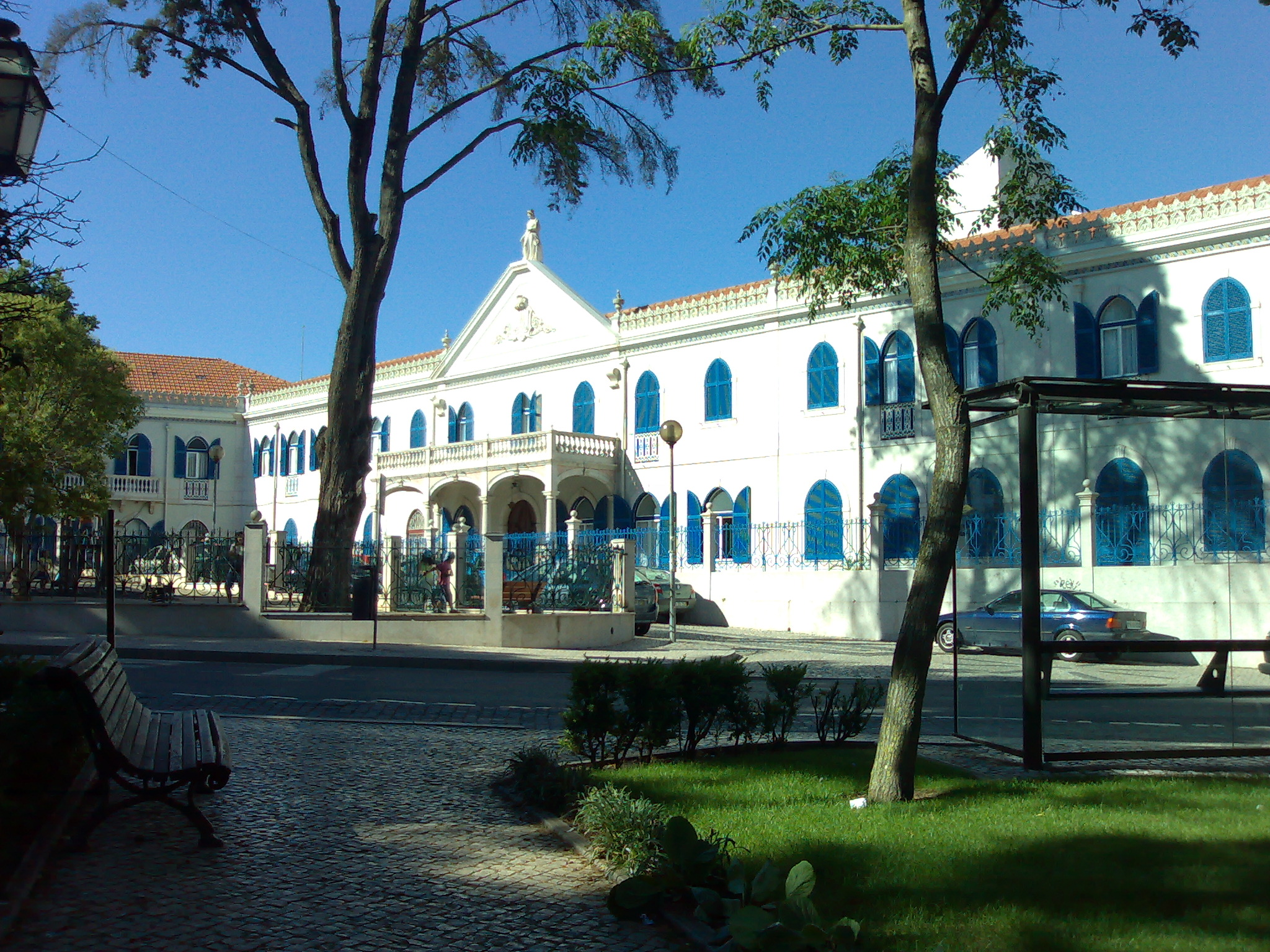 Belas, Sintra, Portugal.